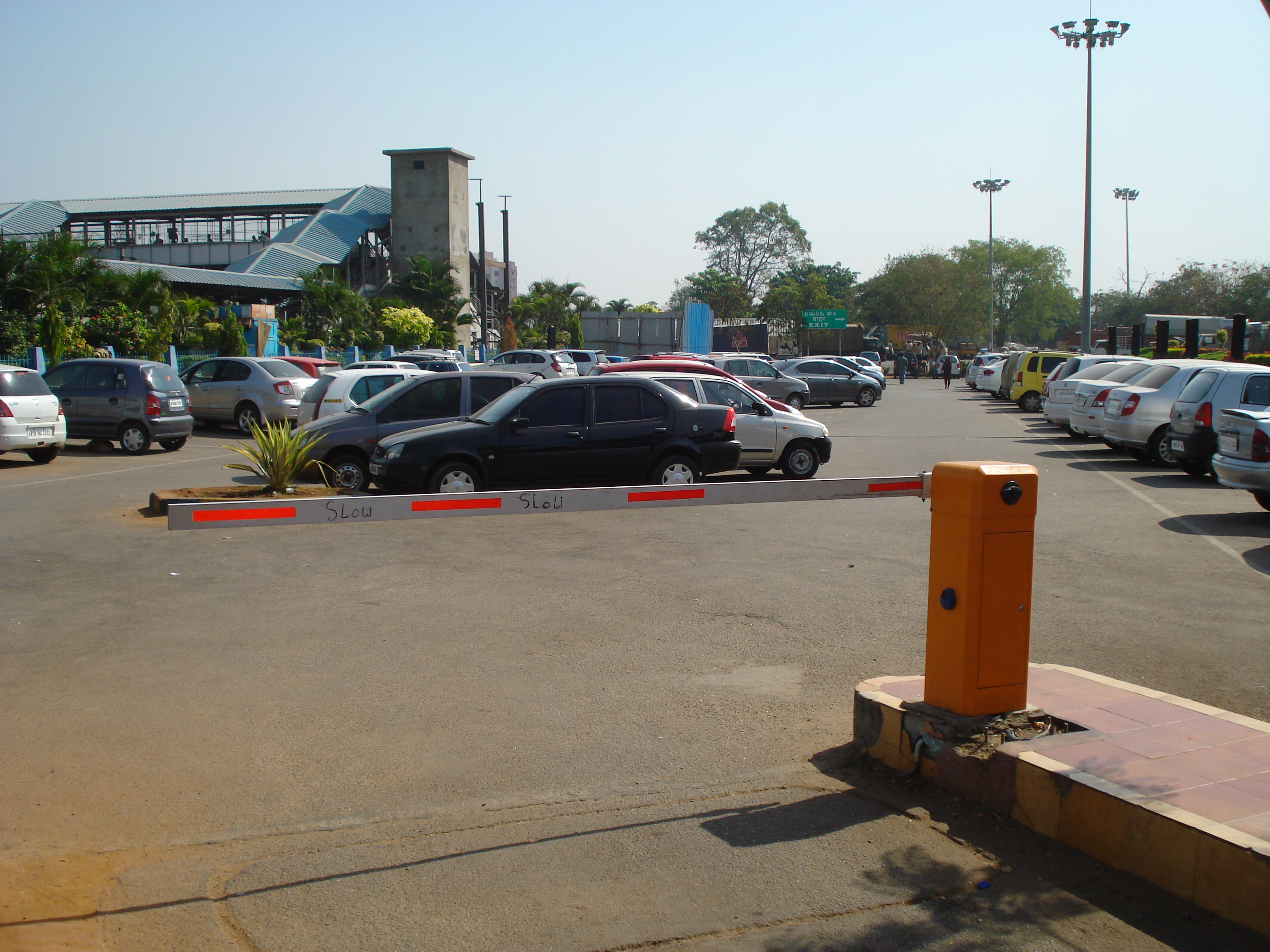 The newly inaugurated automated parking lot in the Platform No.10 Secunderabad Railway Station